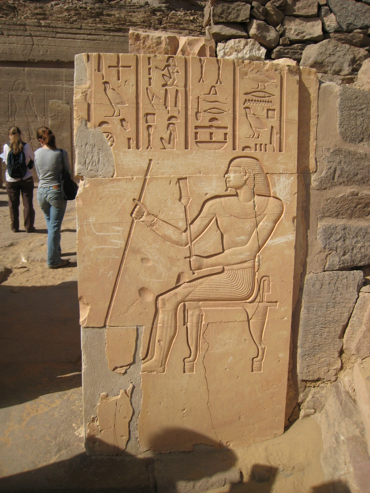 Qubbet el-Hawa IMG_6407